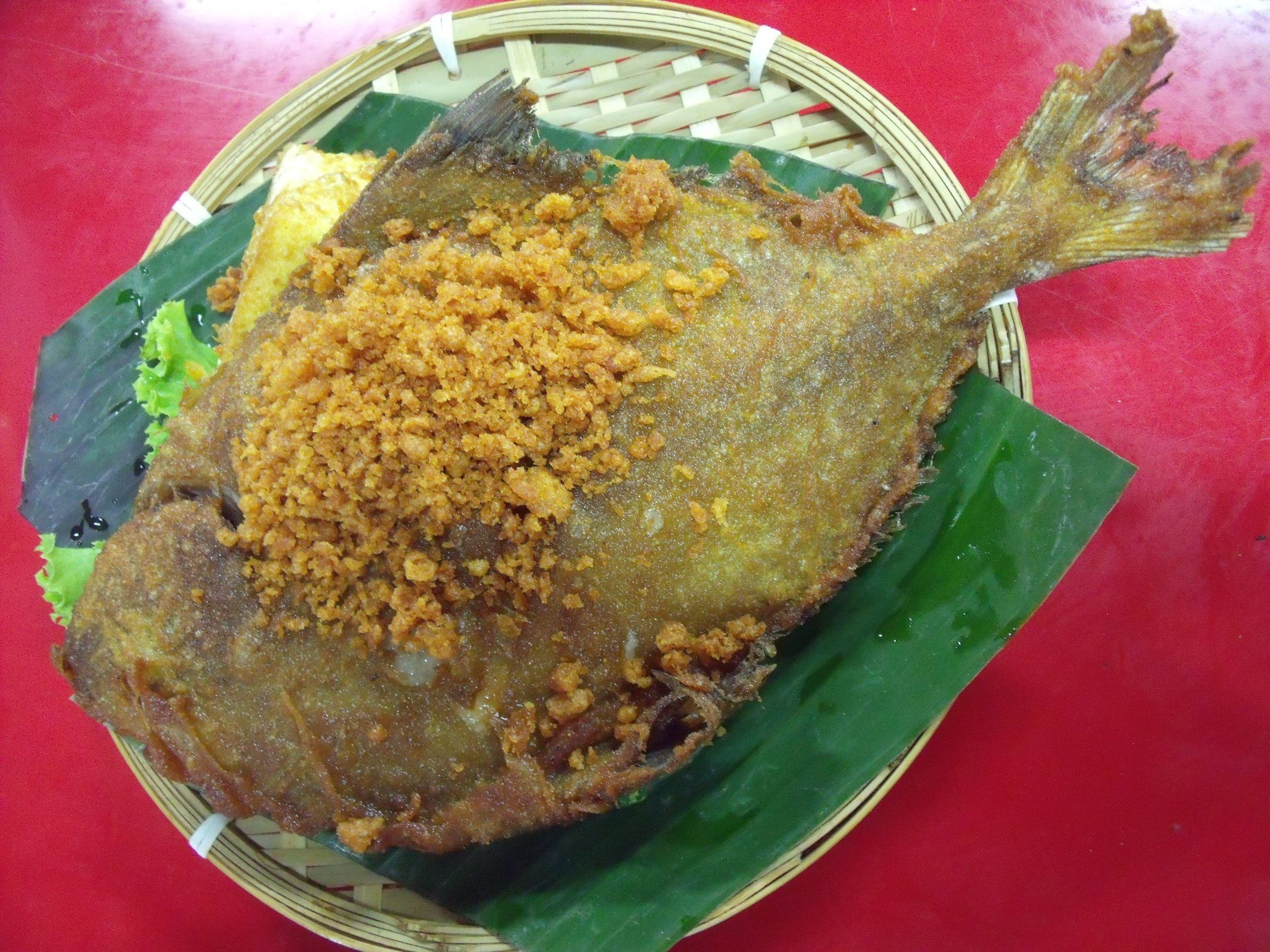 Delicious pomfret at Science Canteen, NUS.